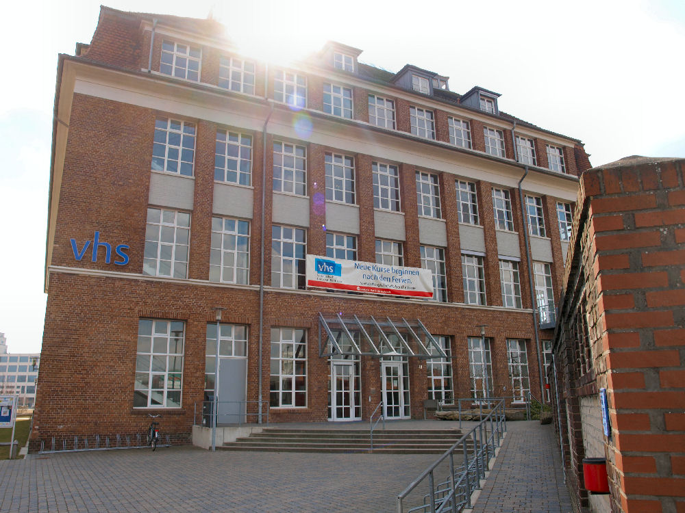 Nordhorn, Rohgewebelager